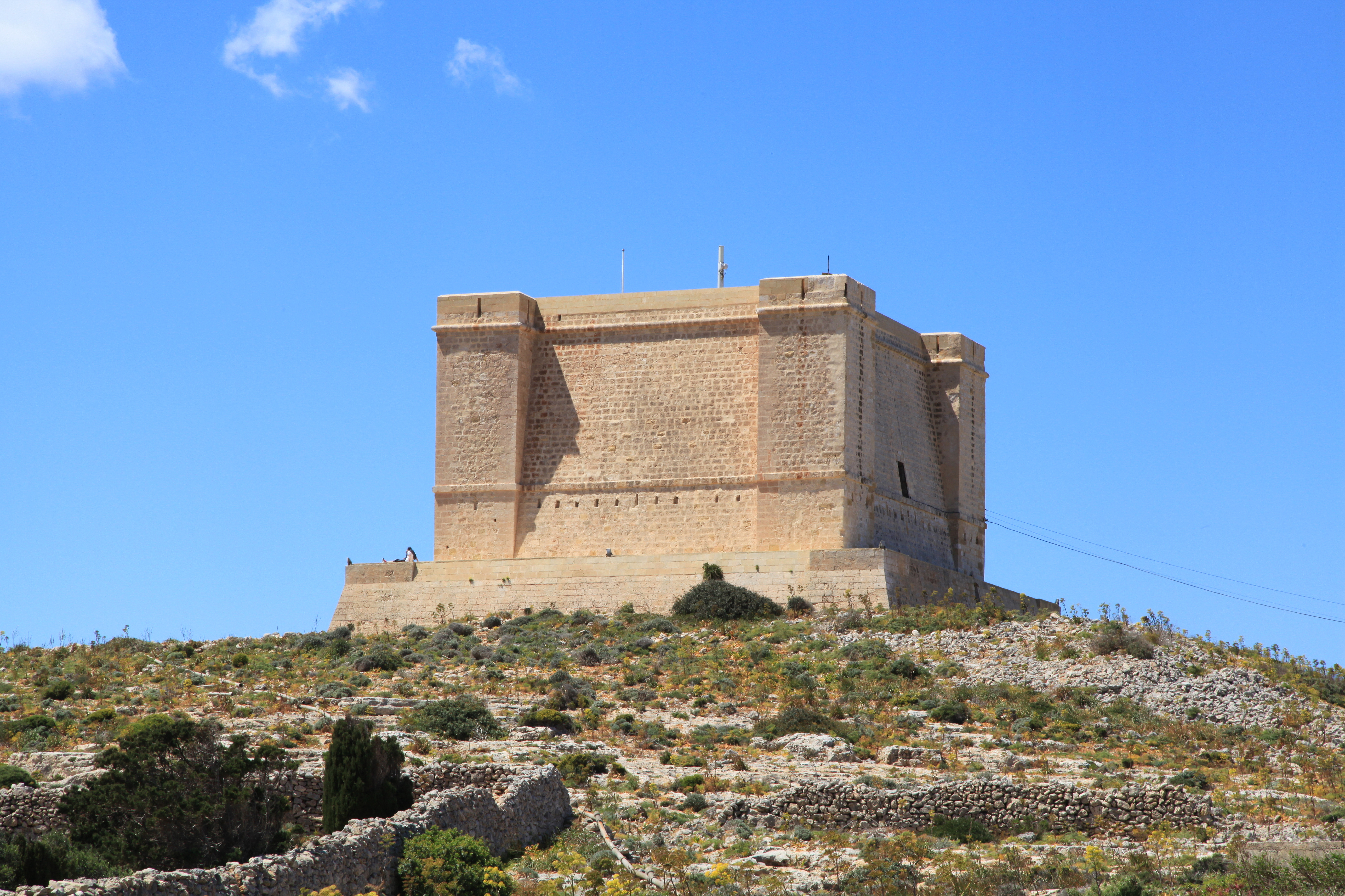 St. Mary's Tower on Comino in Għajnsielem, Malta